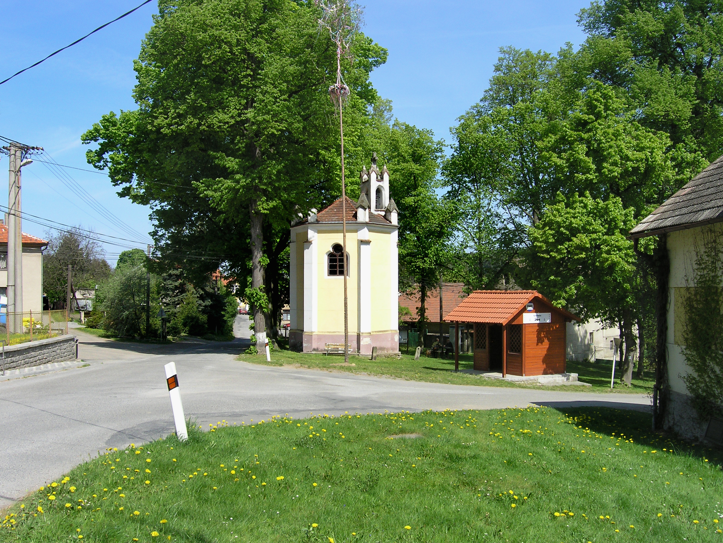 Common in Smilkov village, Czech Republic